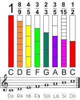 Fórmula